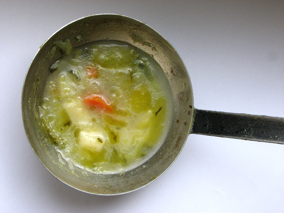 Cucumber soup